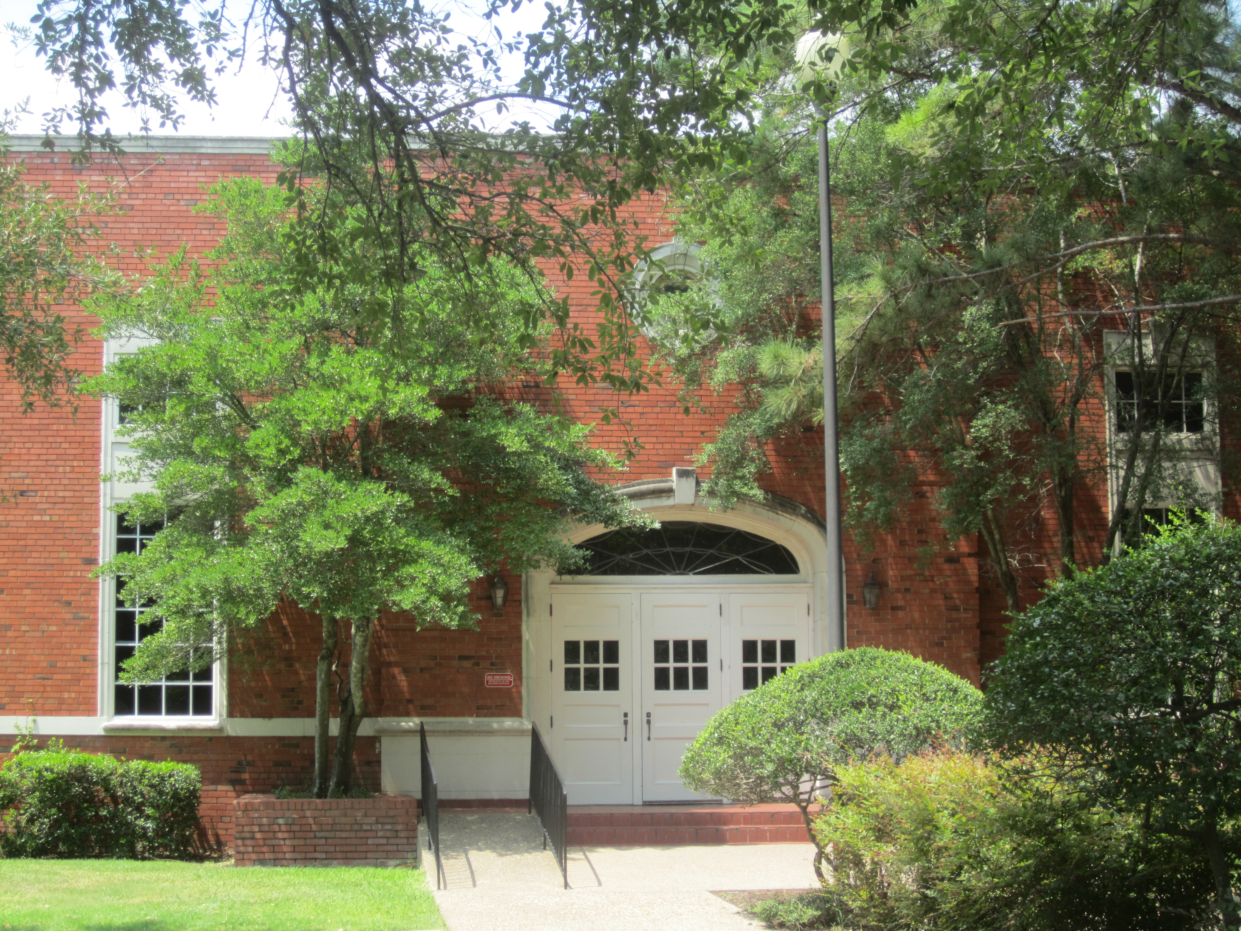 I took photo at Navarro College in Corsicana, TX.